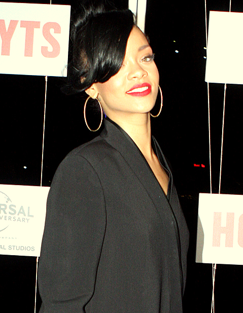 Rihanna at the Battleship Australian Premiere 2012.